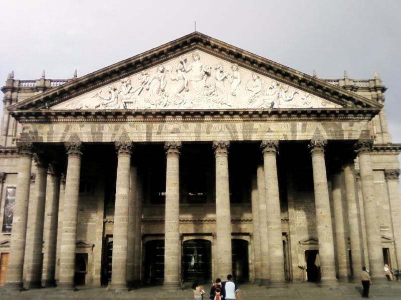 Degollado Opera House in Guadalajara